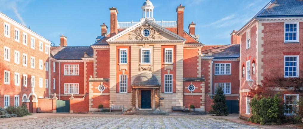 Lady Margaret Hall Oxofrd Talbot Hall